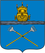 Chukhloma (Kostroma oblast), coat of arms (1779)